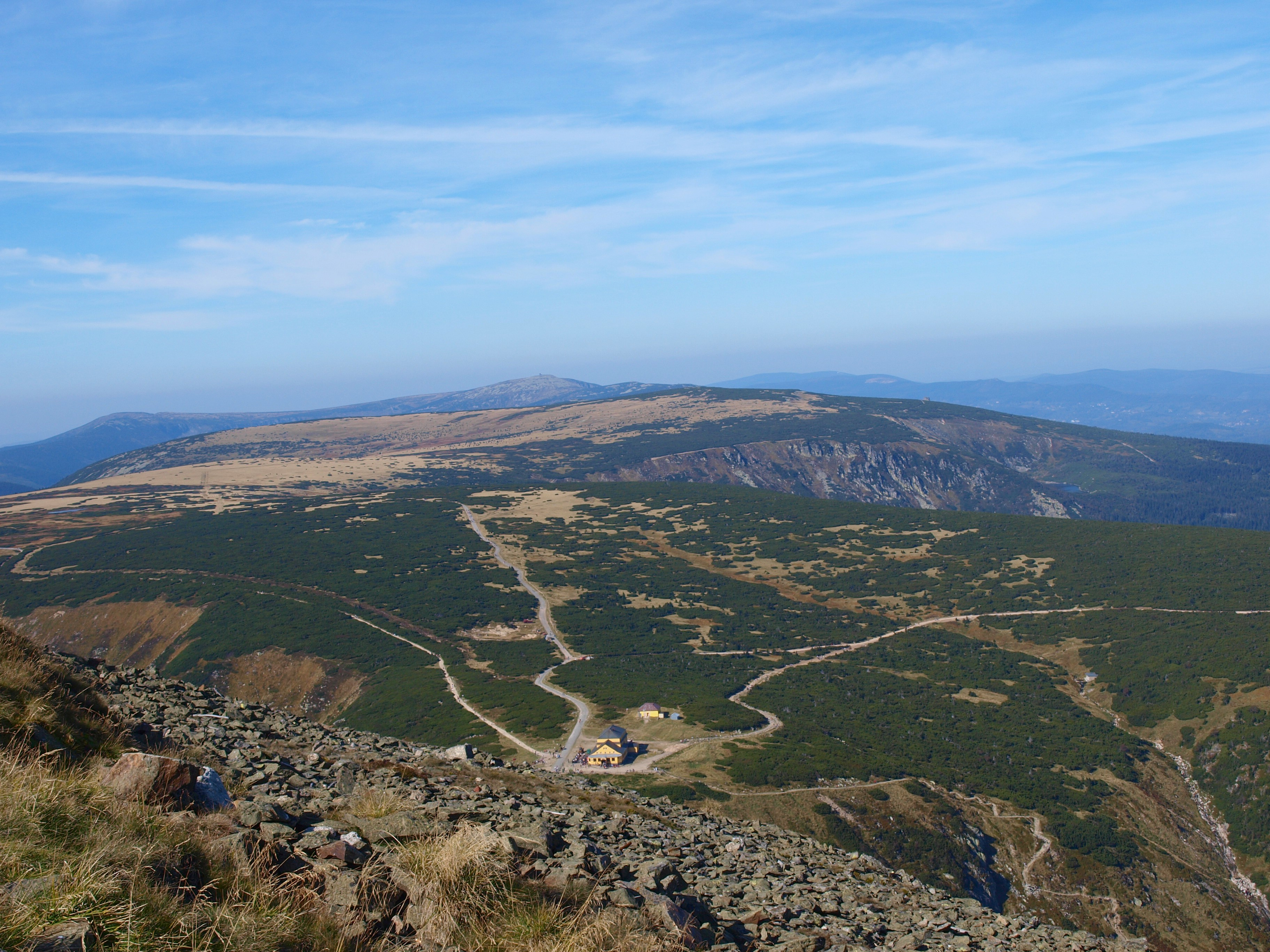 View at former Obří bouda, Sněžka, Krkonoše